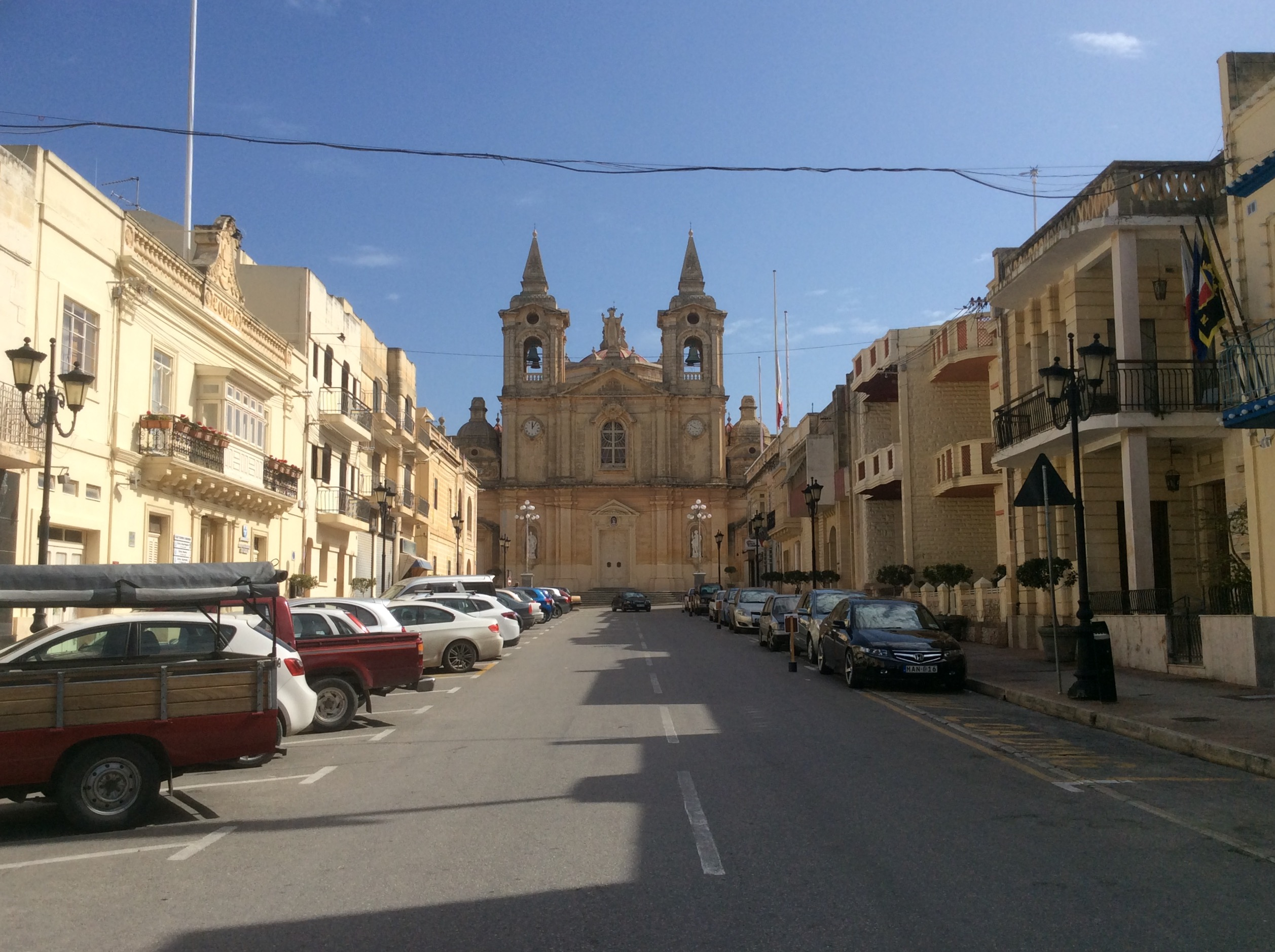 Parish Church of Saint Catherine This media is about Maltese cultural property with inventory number 01260.